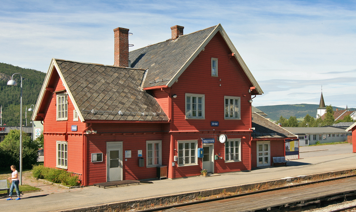 Alvdal railway station, Rørosbanen, Norway.